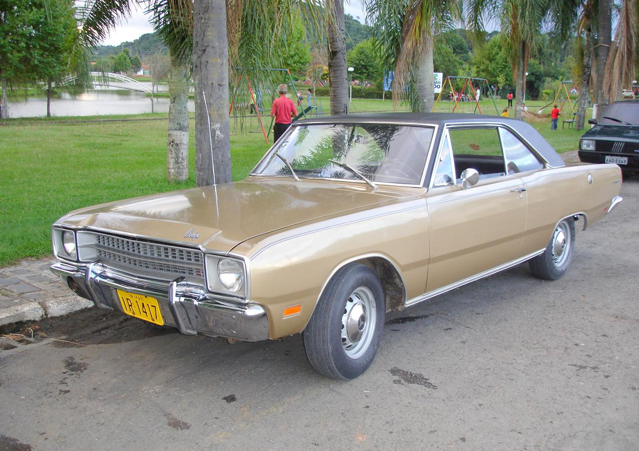 Dodge Dart 1973 Brazil Museu do Dodge Curitiba